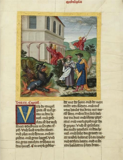 Ottheinrich Bible (formerly at Gotha), Folio 294r Saint John measuring the temple of God (Revelations 11:1-7)